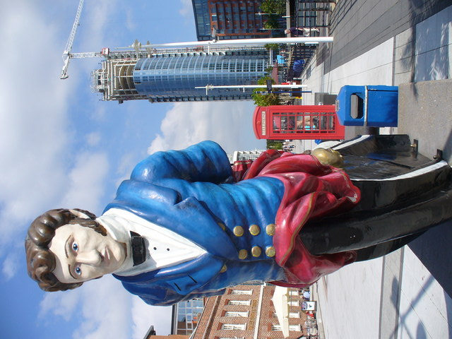 Figurehead and No 1 Gunwharf Quay The figurehead makes an attractive feature in this new shopping and recreational area. The skyscraper will contain upmarket flats when completed.